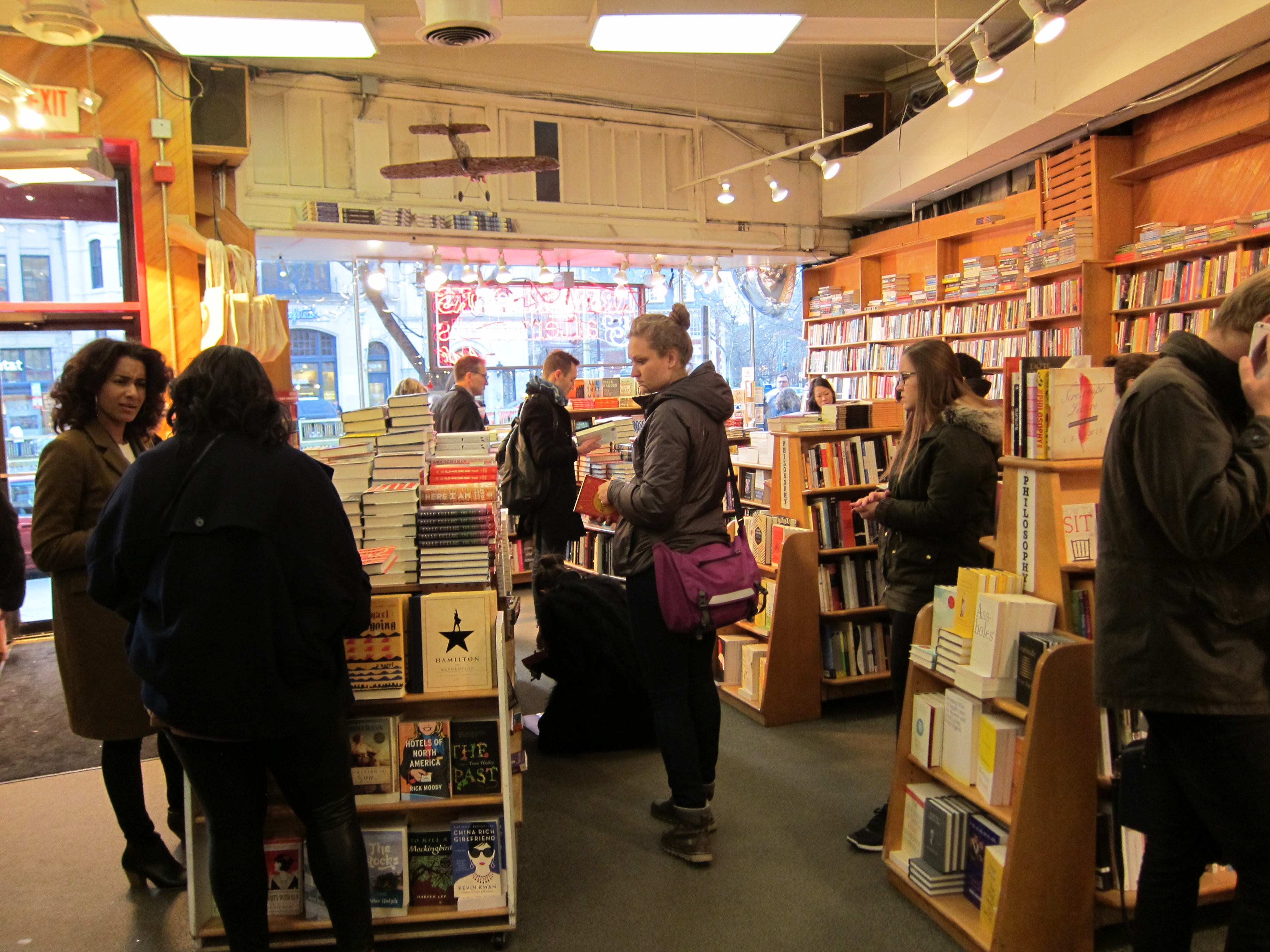 Kramerbooks & Afterwords in Washington, D.C.